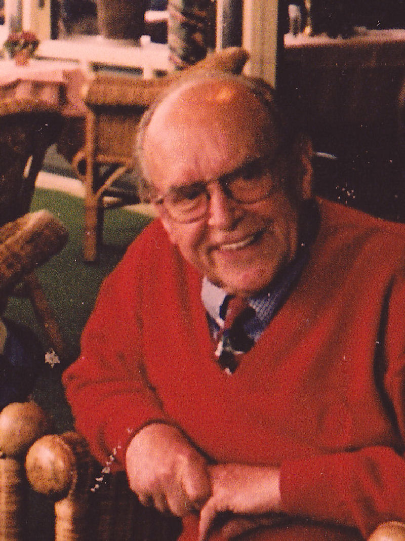 Wim Hornman